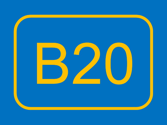 B20 main Road logo, Paphos.